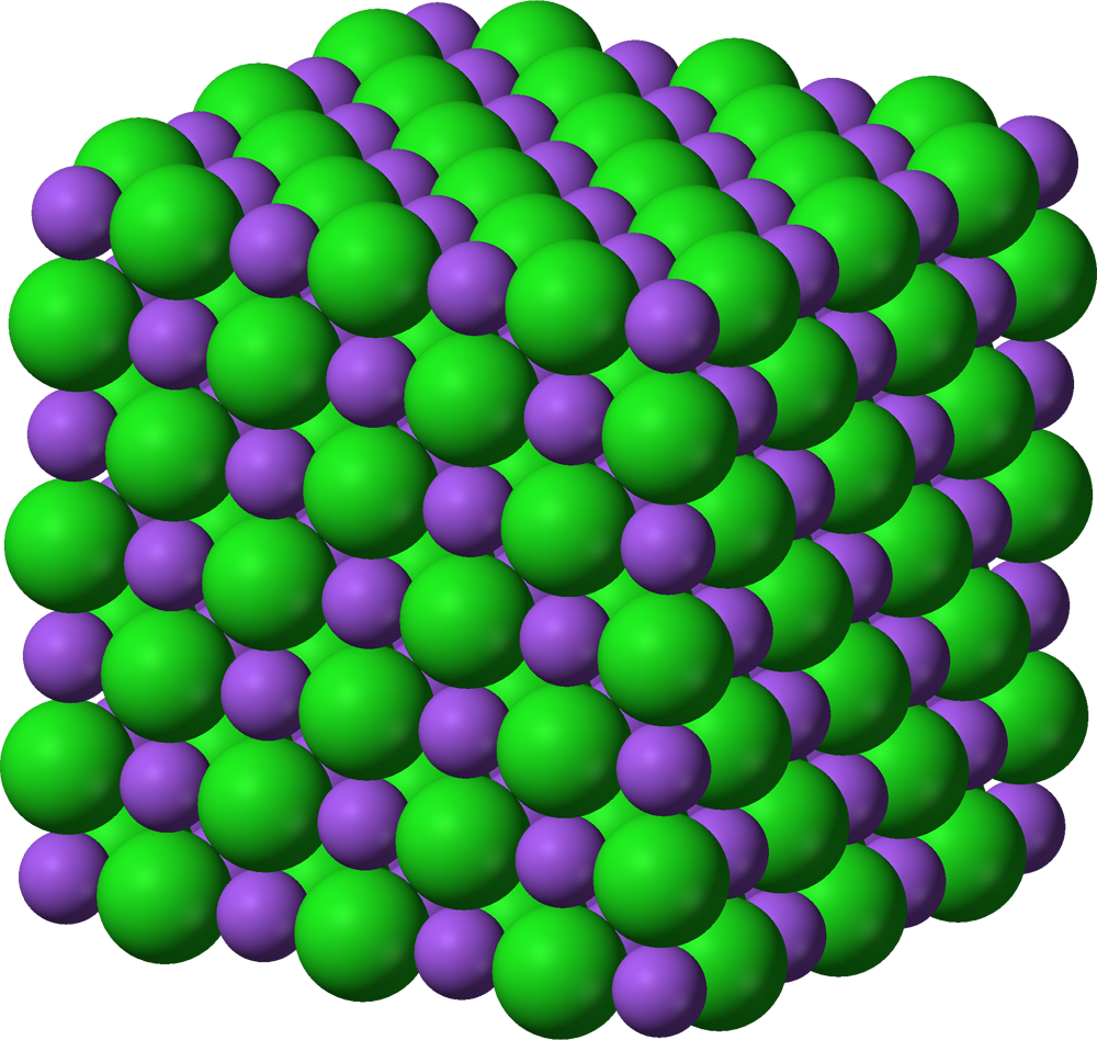 The crystal structure of sodium chloride, NaCl, a typical ionic compound. The __ purple spheres represent sodium cations, Na+, and the __ green spheres represent chloride anions, Cl−.